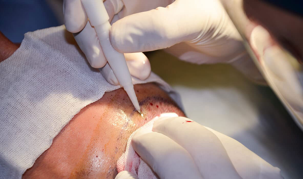 dhi